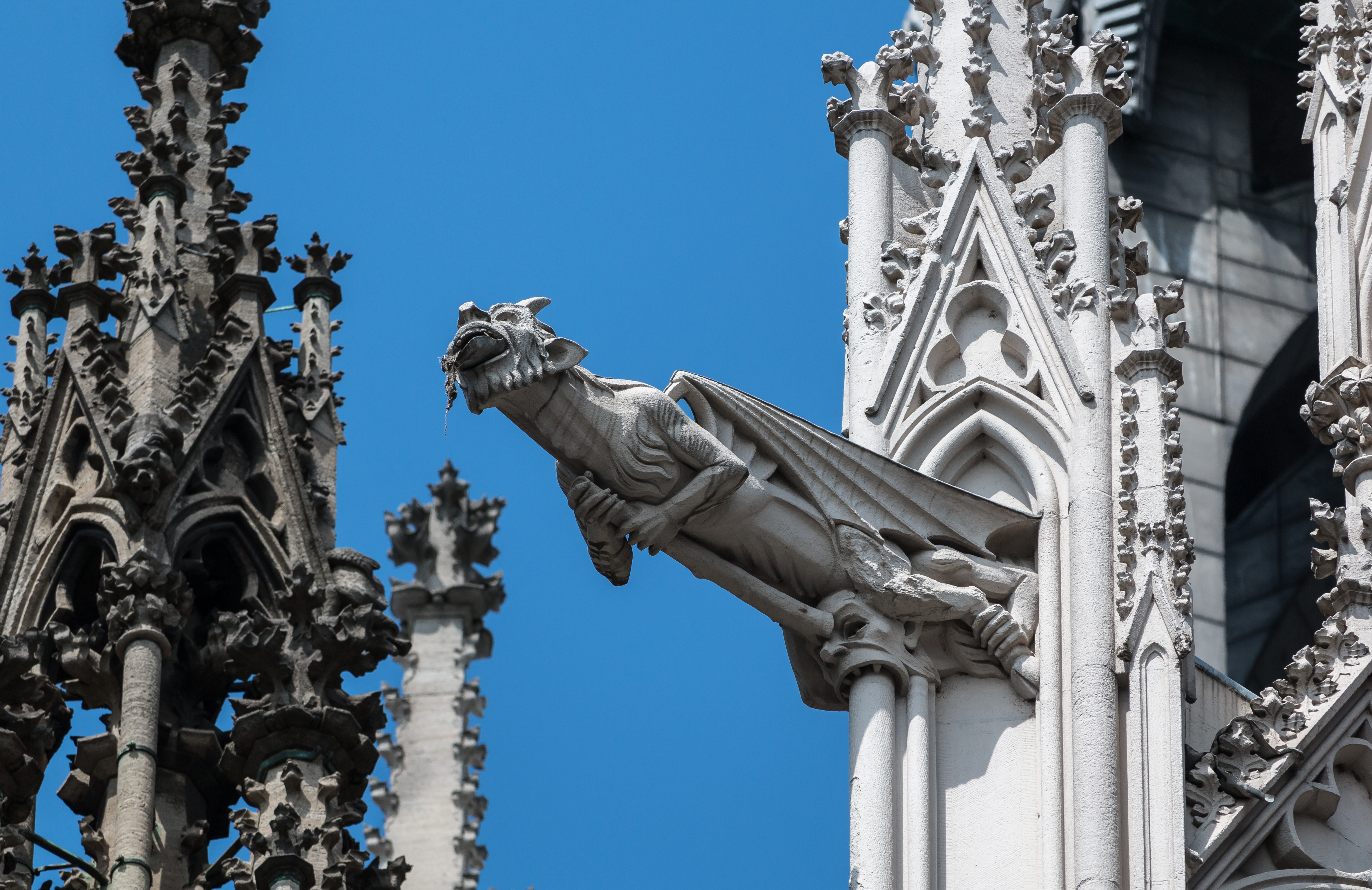 Gargoyle at the Cathedrale, Cologne, North Rhine-Westphalia, Germany This image shows a heritage building in Germany, located in the North Rhine-Westphalian city Köln (no. 911).